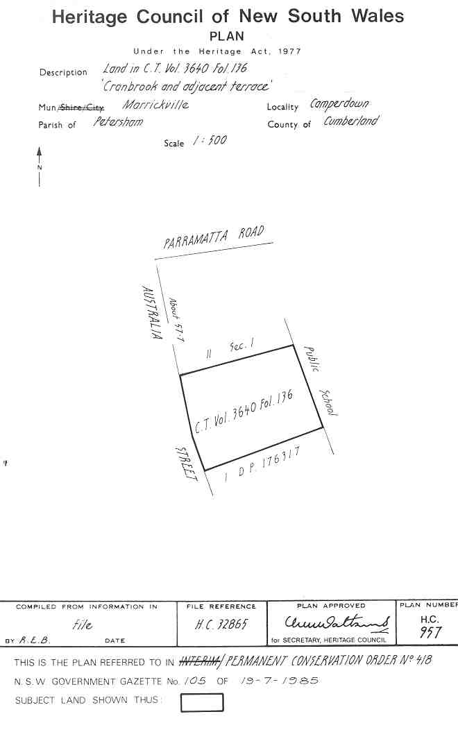 Cranbrook, Camperdown: PCO Plan Number 418